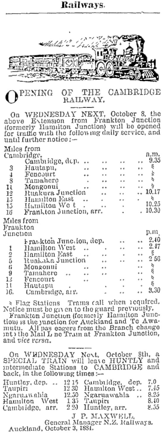 Cambridge Branch railway opening Auckland Star 3 Oct 1884